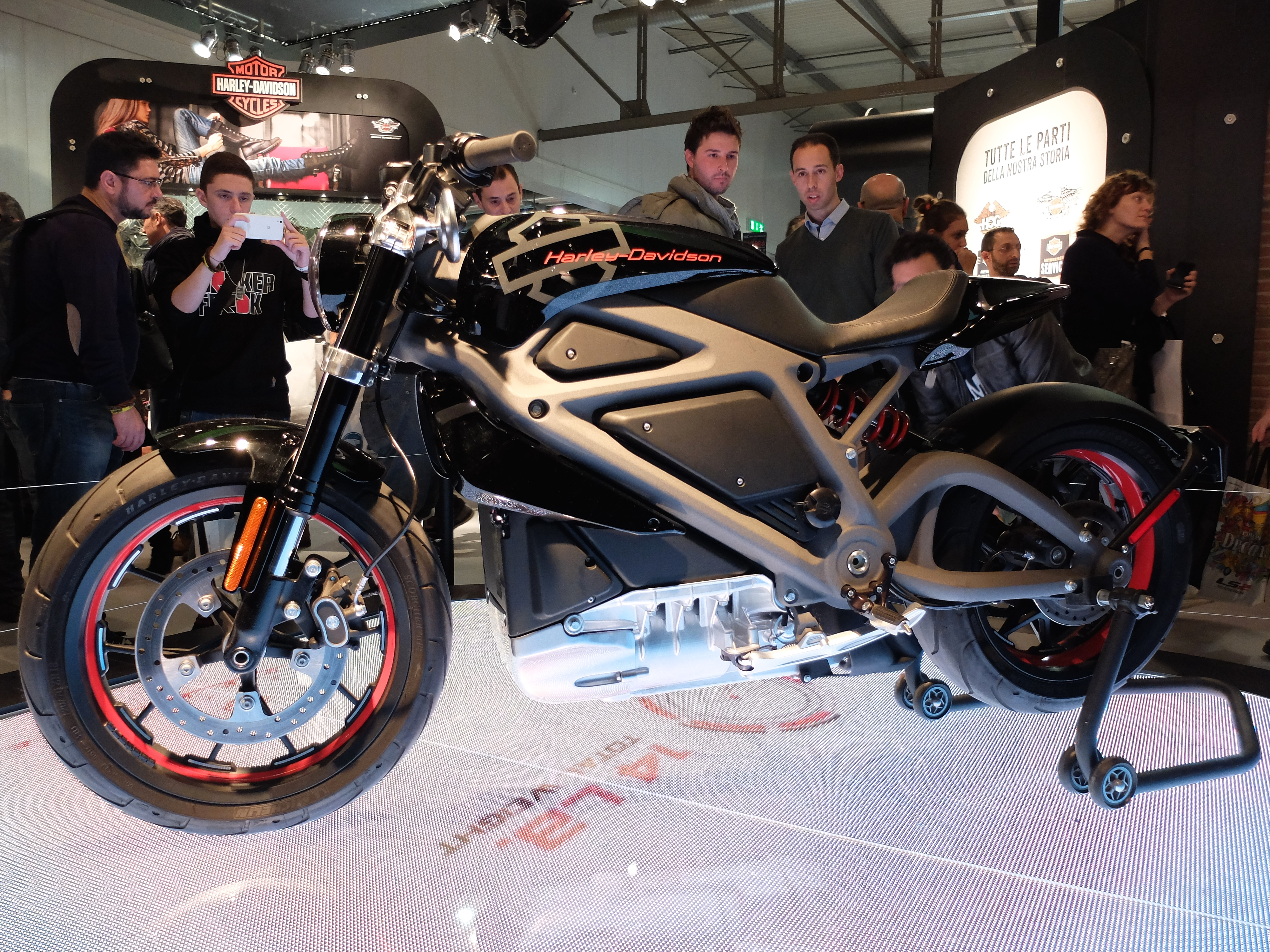 Harley-Davidson LiveWire at MCN Motorcycle Live NEC Birmingham November 25th 2014